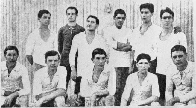 The Gimnasia y Esgrima La Plata football team that achieved promotion to Primera División, after beating Honor y Patria.